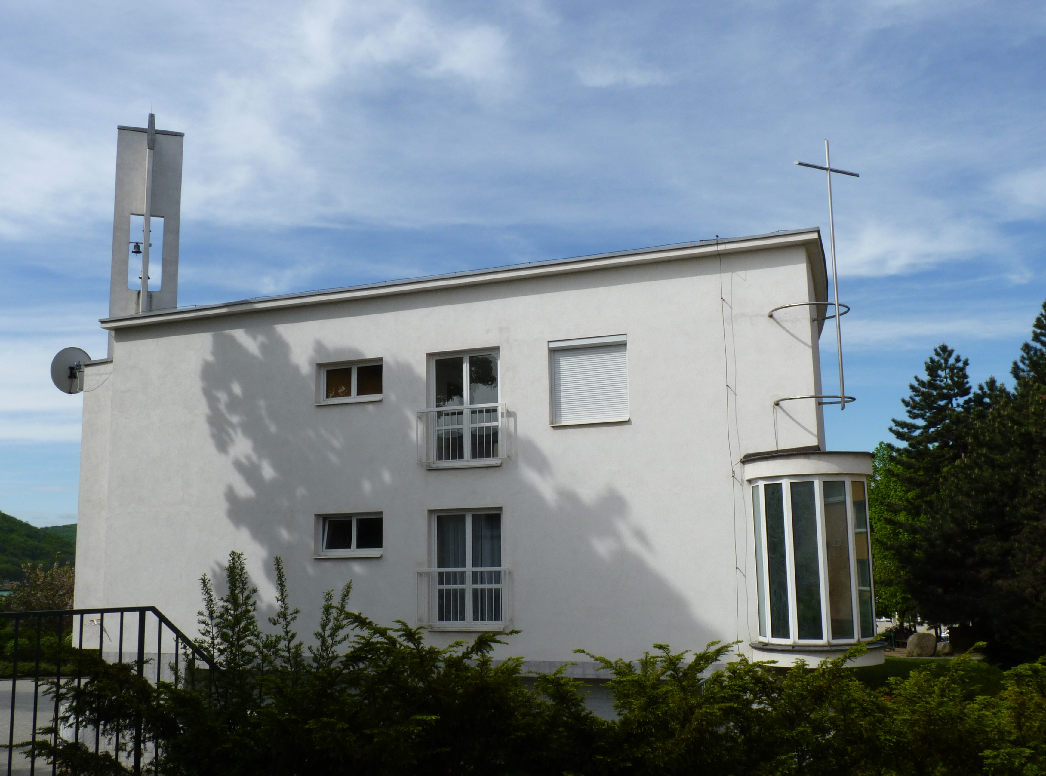 Salesian Church of Our Lady Help of Christians in Brno-Žabovřesky, Czech Republic